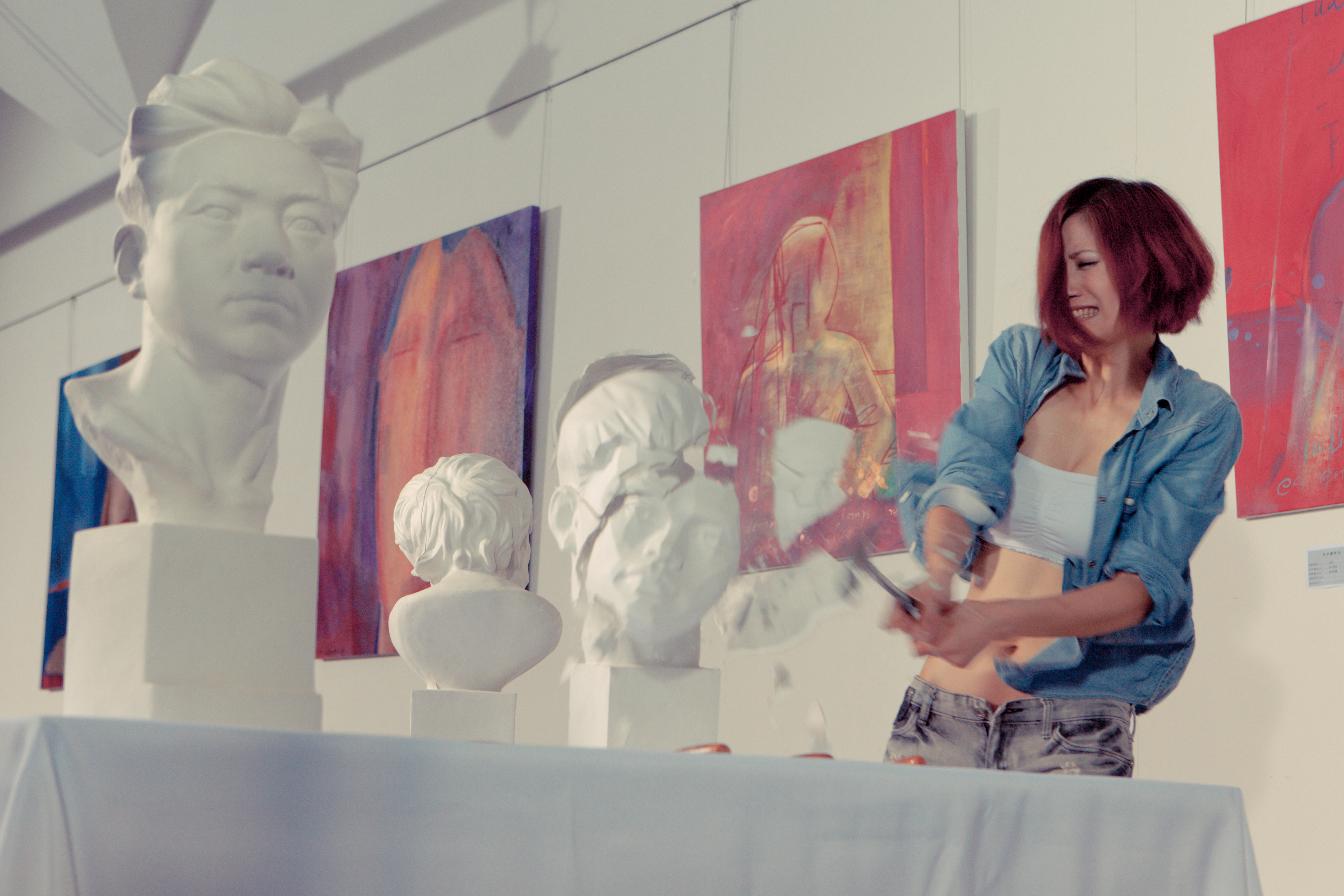 One of my commercial shoots: Photos featuring Chinese models as wallpapers. Those were downloadable on a Philips microsite. It was for the launch of a new "3D Shaver". The idea was to show four different women: A model, an artist, a office worker and an CEO. This photo was not one of the final 3 that were offered as a wallpaper.